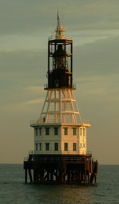 The (old) One Fathom Bank Lighthouse, as seen off the coast of Selangor in the Strait of Malacca, Malaysia. Cropped version of source photograph.